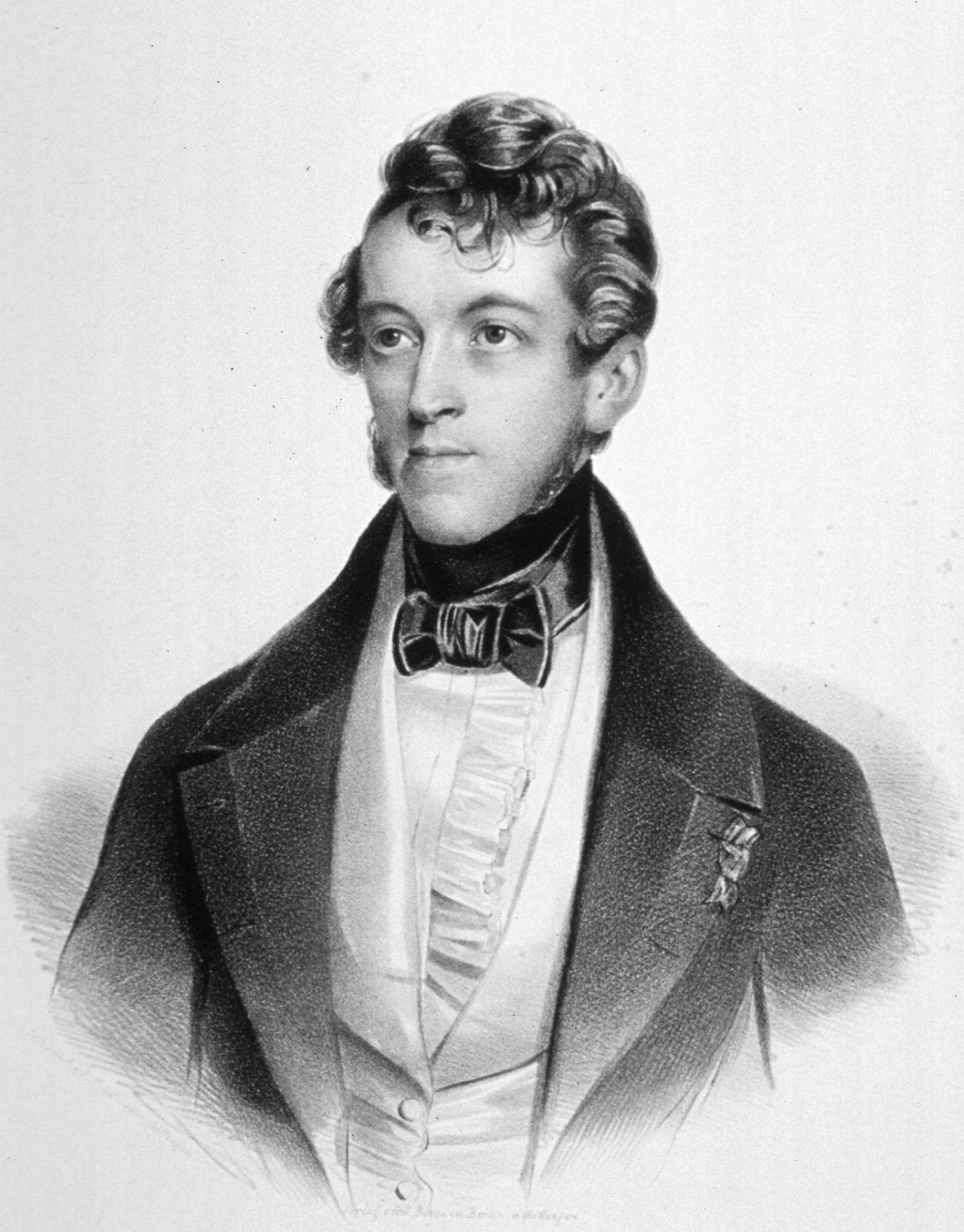 Bernhard Rudolf Konrad von Langenbeck (9 November 1810 – 29 September 1887)